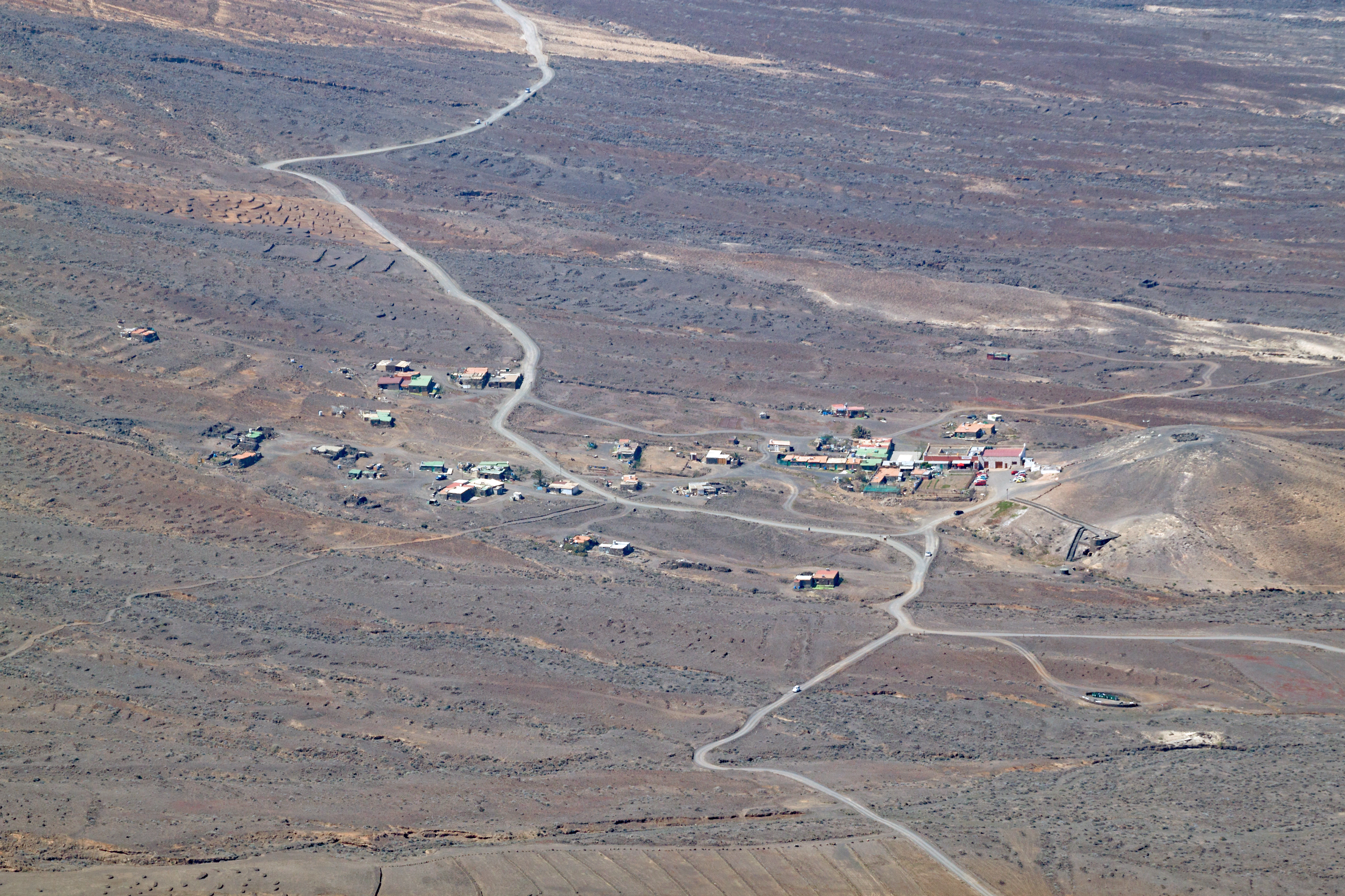 The village Cofete, Jandía, Fuerteventura, Canary Islands, Spain; view from Pico de la Zarza.